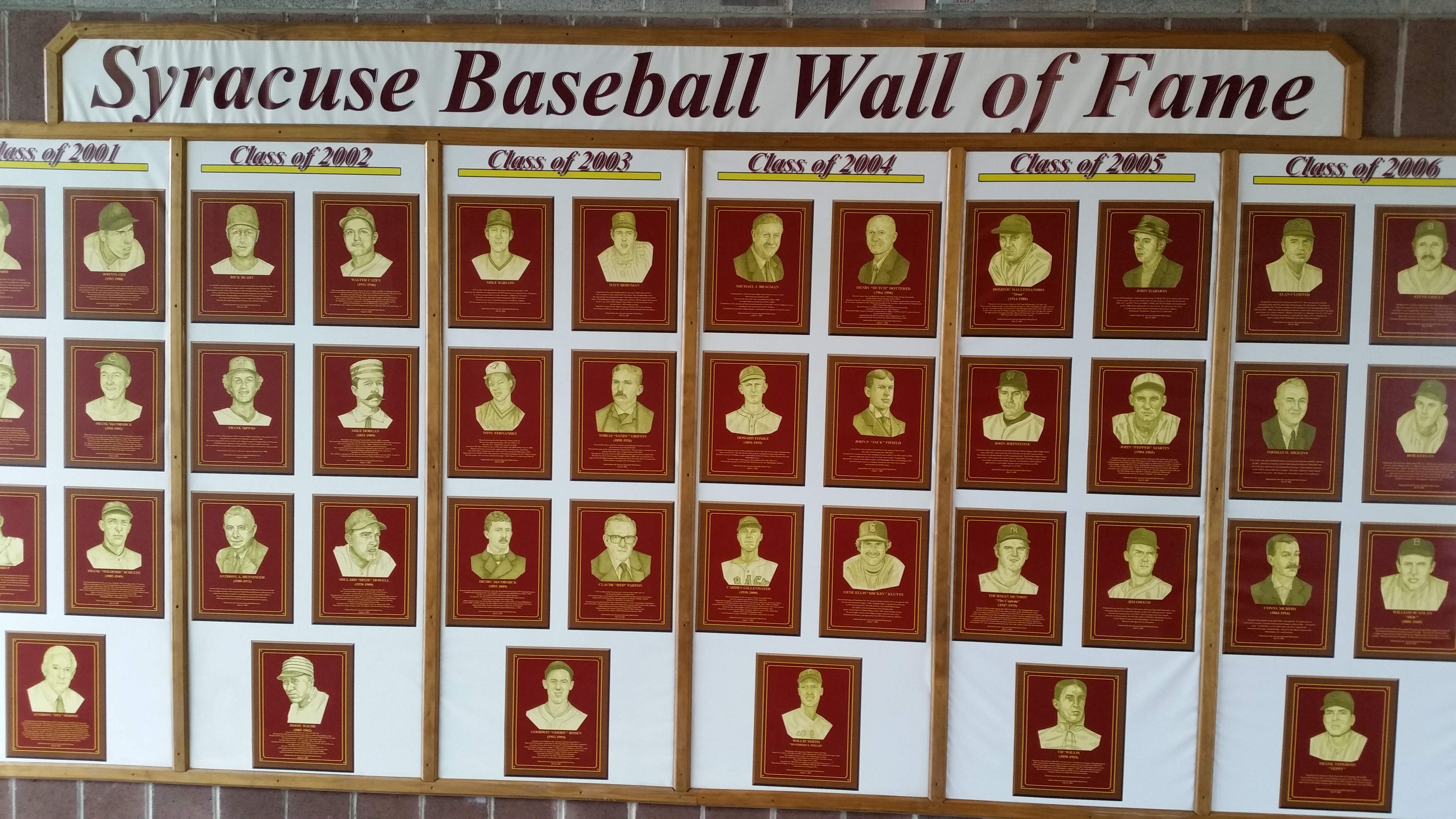 Photo of one section of the 'Syracuse Baseball Wall of Fame' at NBT Bank Stadium, Syracuse, New York